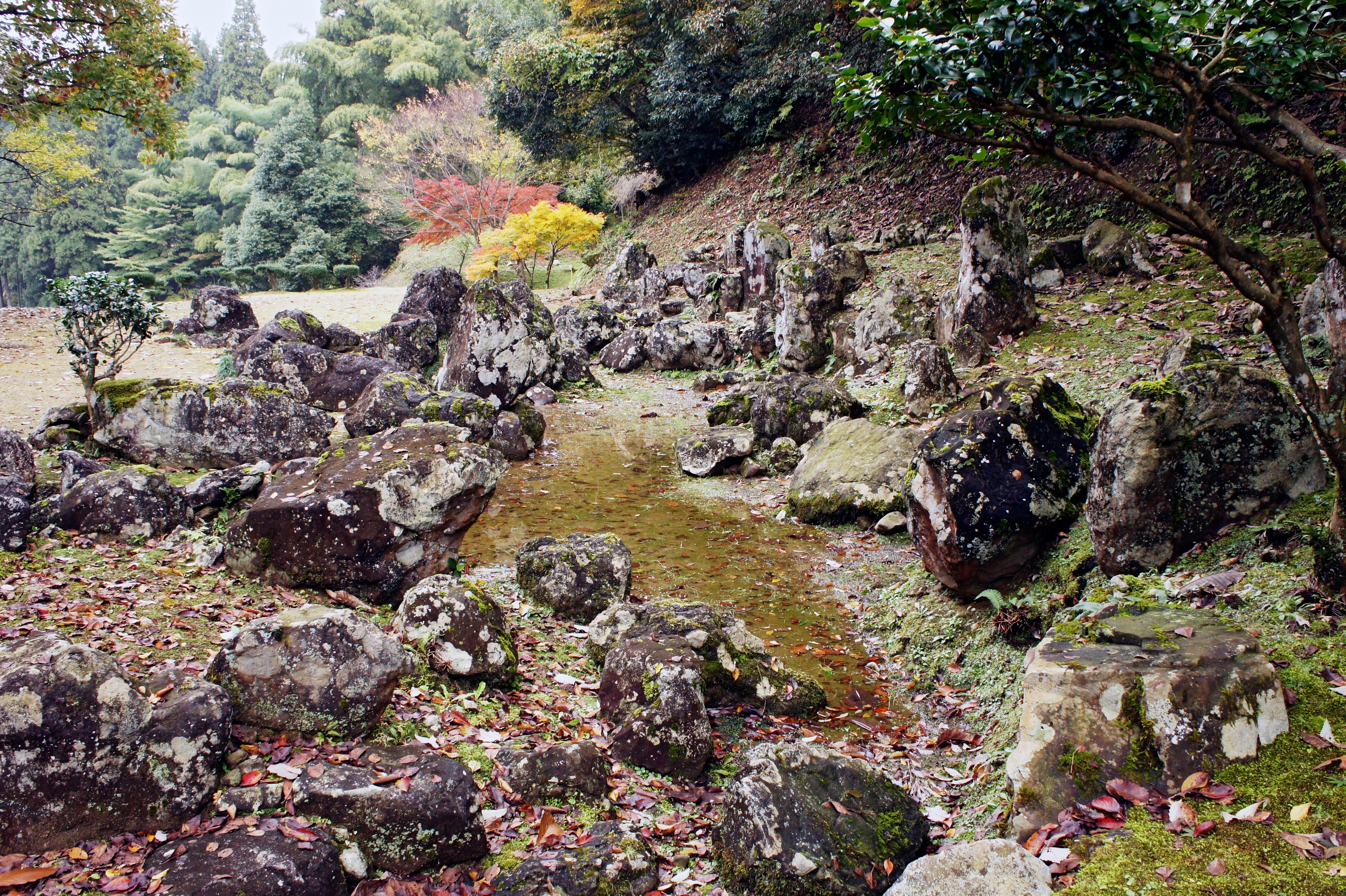 Yudono-ato_Garden of Ichijōdani Asakura Family Historic Ruins is an extremely important cultural asset of Japan "Special Places of Scenic Beauty", in Fukui, Fukui prefecture, Japan.